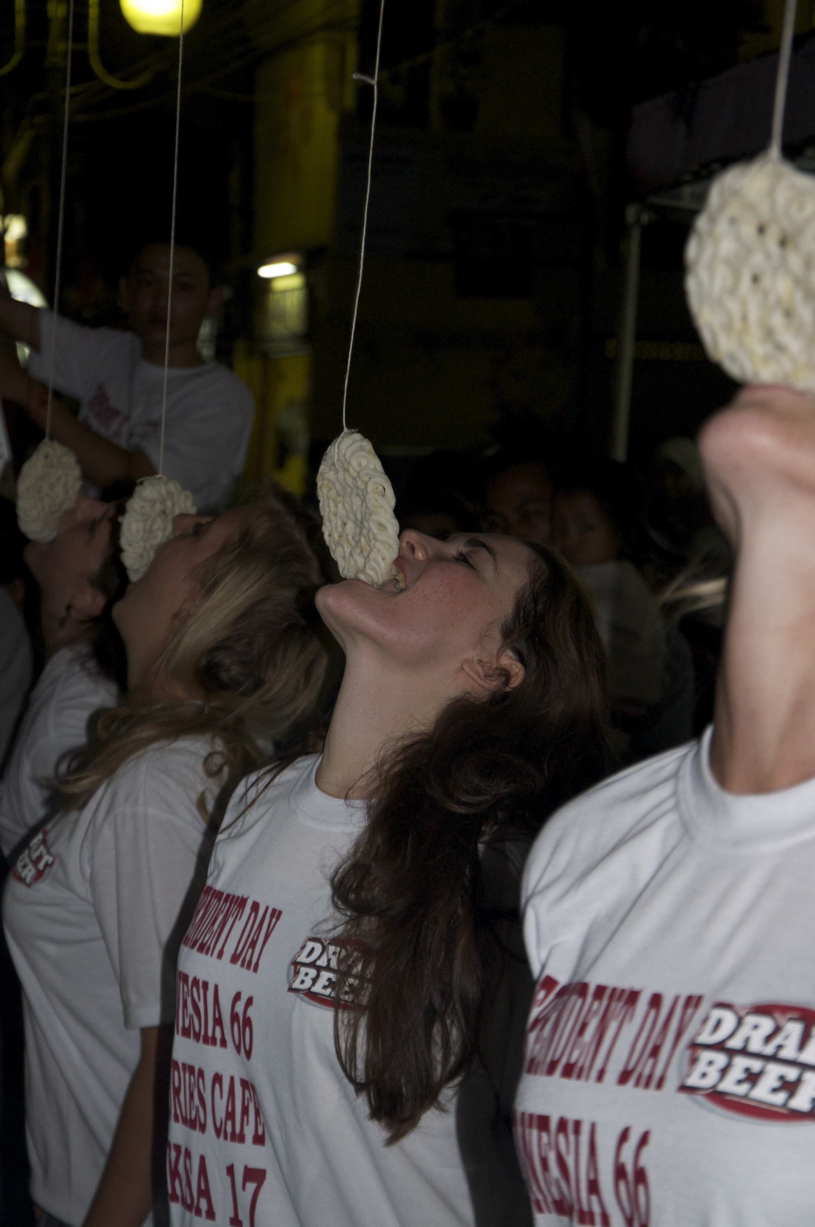 Krupuk speed-eating contest celebrating Indonesian Independence Day at Jalan Jaksa, Jakarta